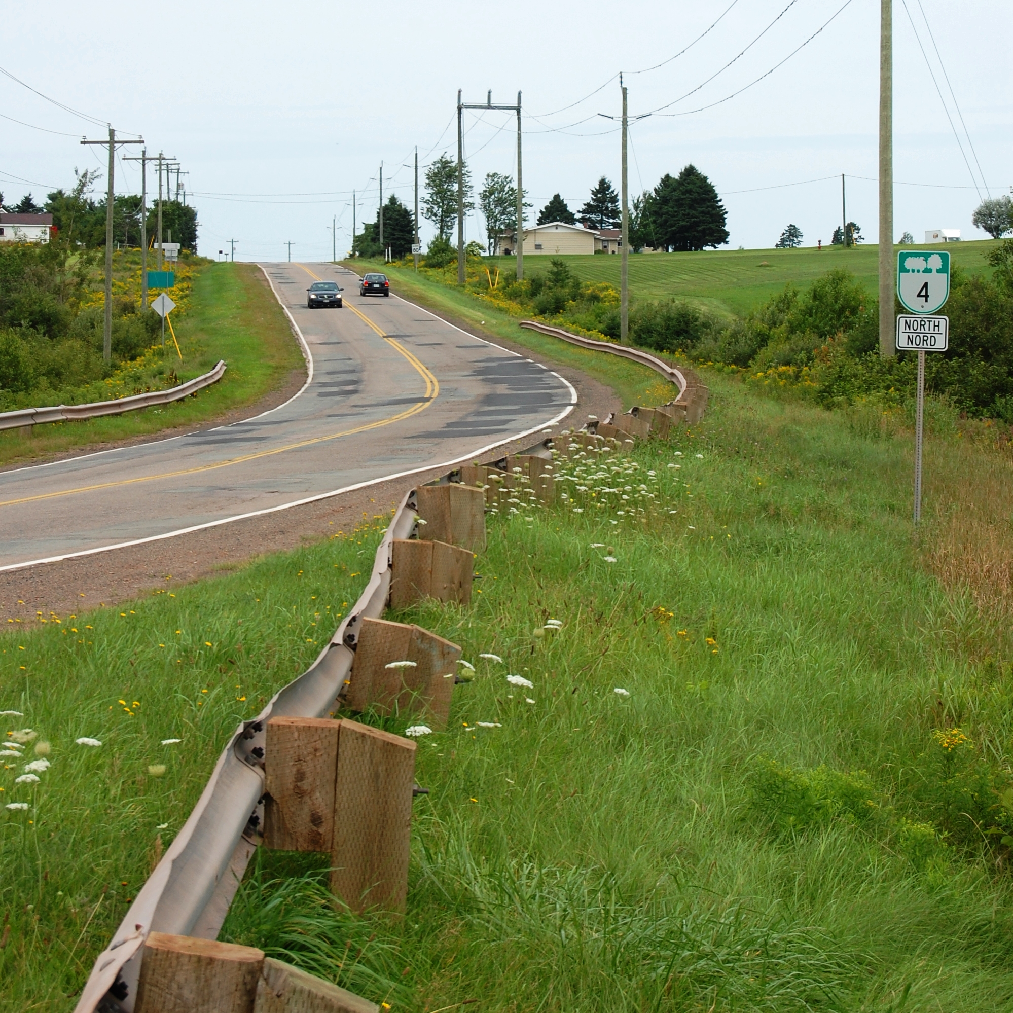 Road and route sign in Kings County, Prince Edward Island. The photo attempts to give an impression of the nature of the road.